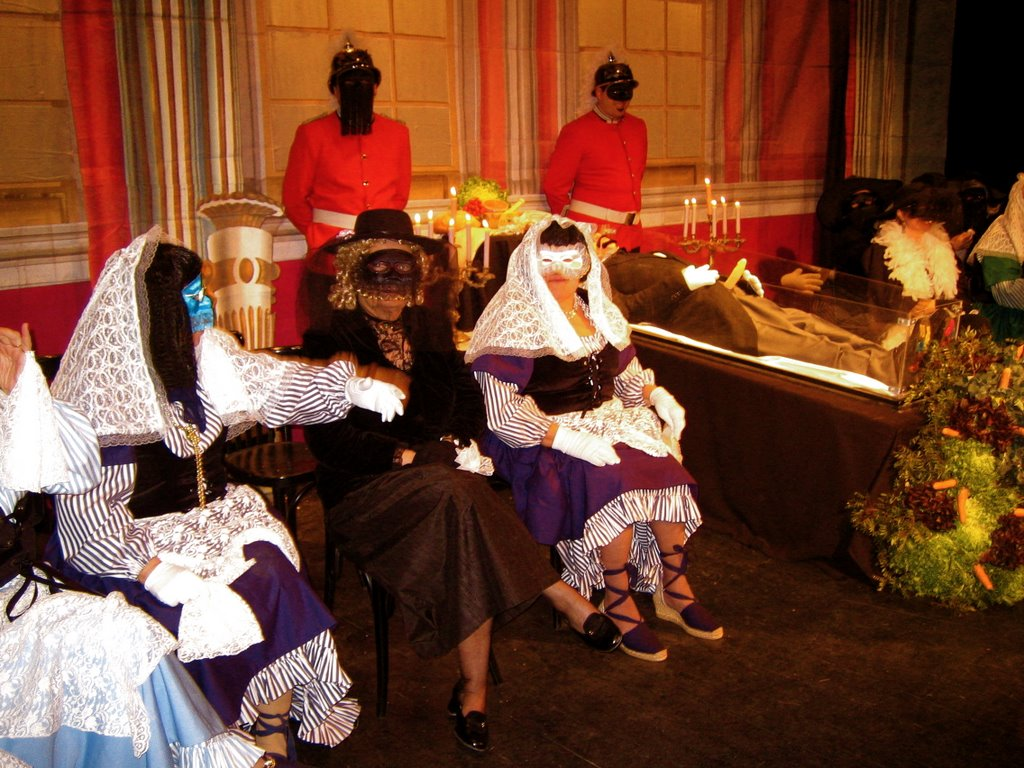 "Ploranyeres" weep for the death of His Majesty and the loss of pleasure.